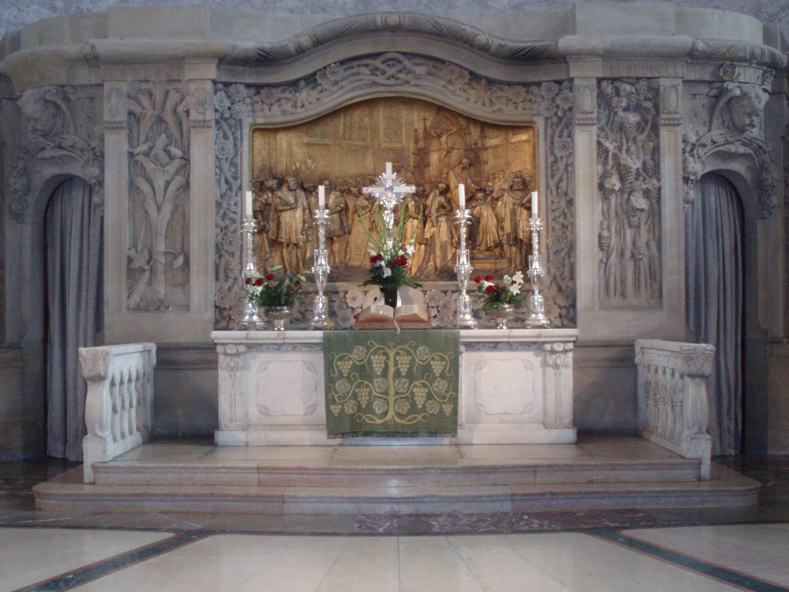 The altar in Kreuzkirche, Dresden. Bronzerelief by Heinrich Epler in 1900